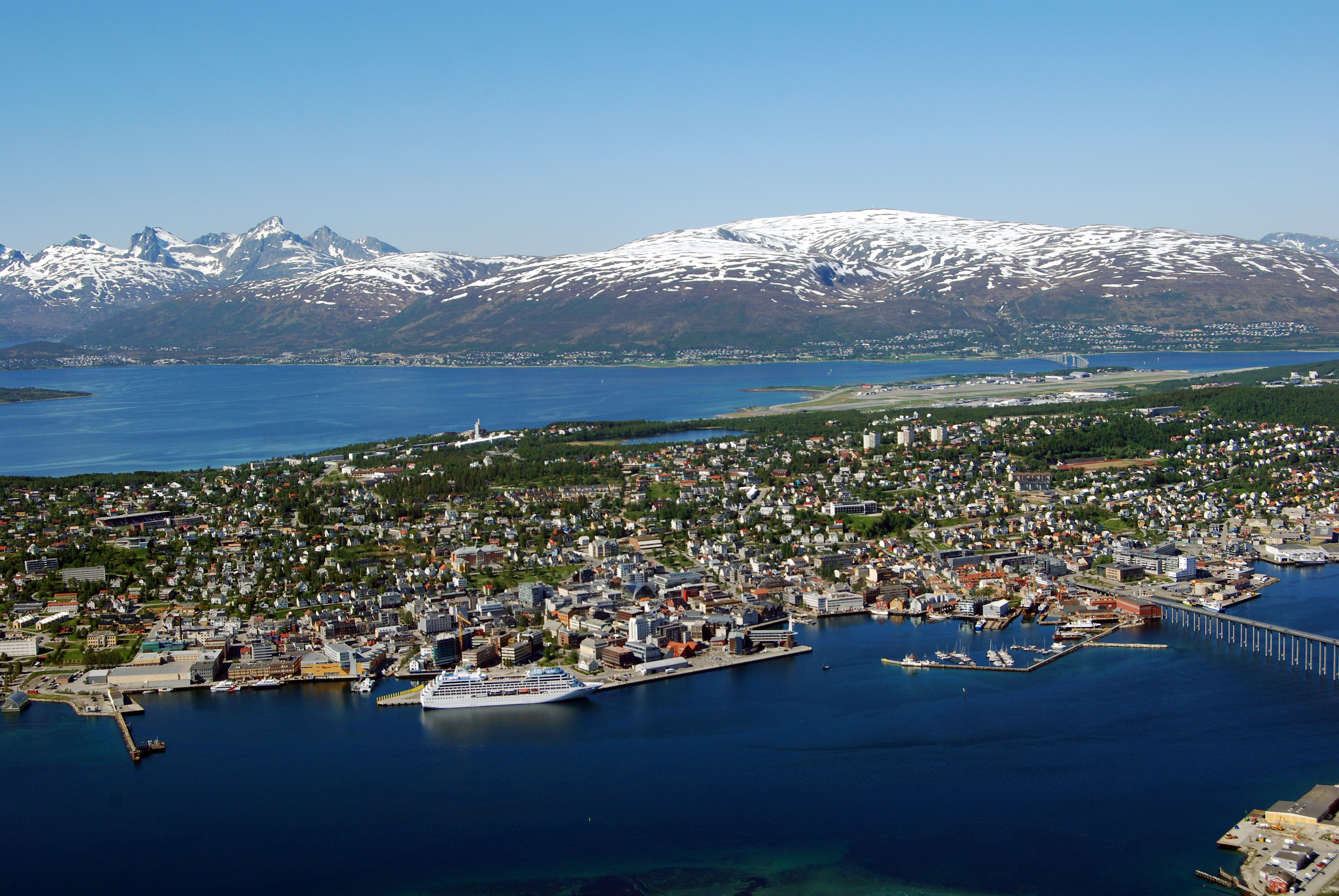 After taking Fjellheisen, the cable car to Stor­stei­nen (Big Rock) on Mount Fløya we get views of Tromsdalen and the Island of Tromsoya